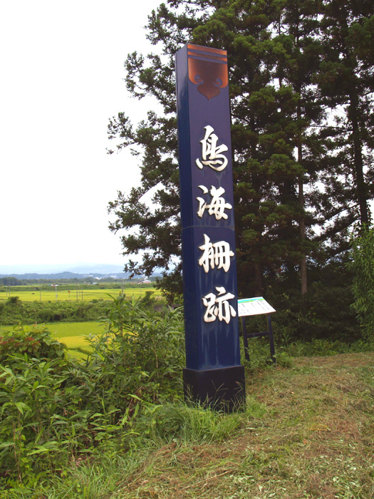 Marker at the Tonomi Palisade in Kanegasaki, Iwate Prefecture, Japan.